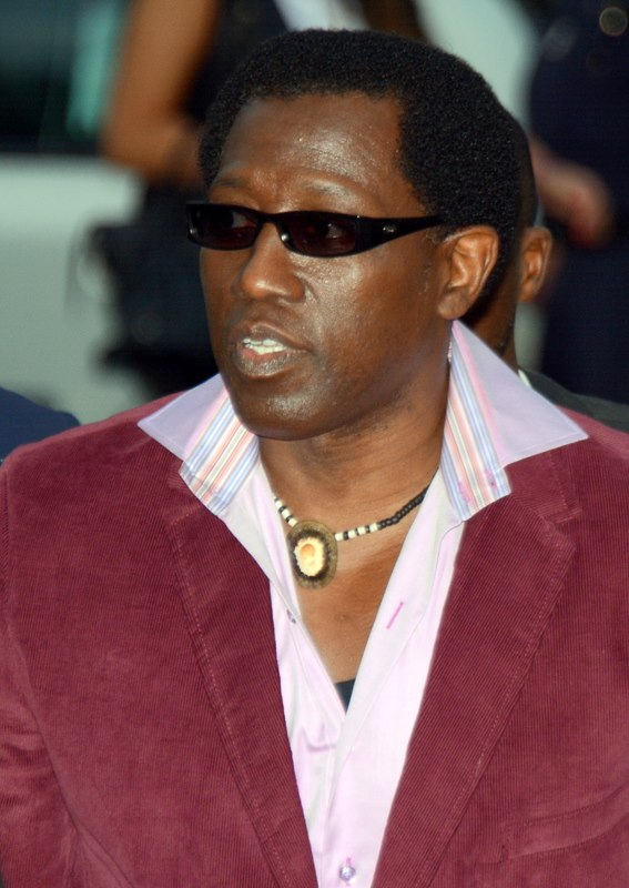 Wesley Snipes in Paris at the French premiere of "The Expendables 3"